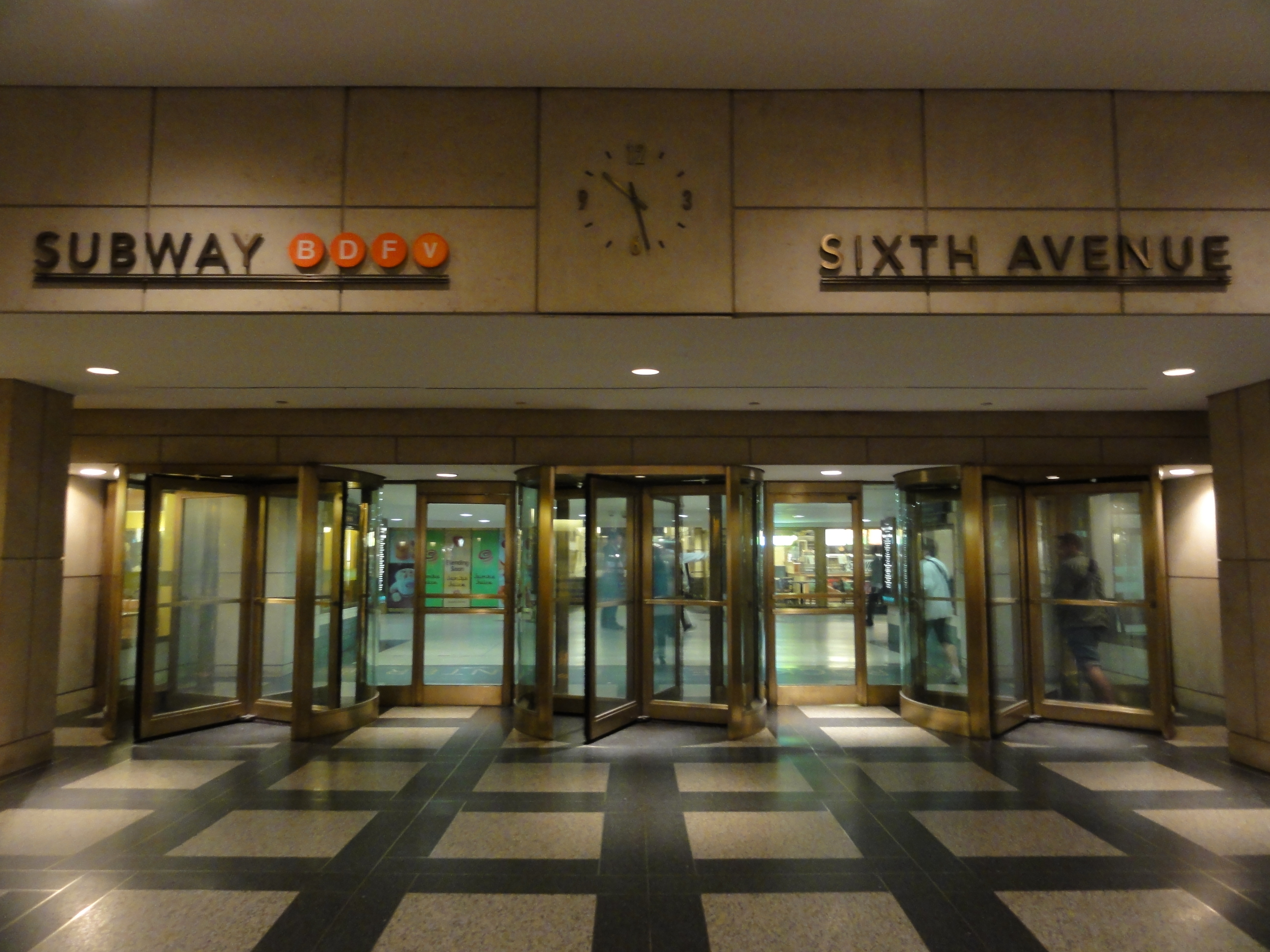 2010/00/17-20 NYC Trip. 2010/00/20 at Rockefeller Center.